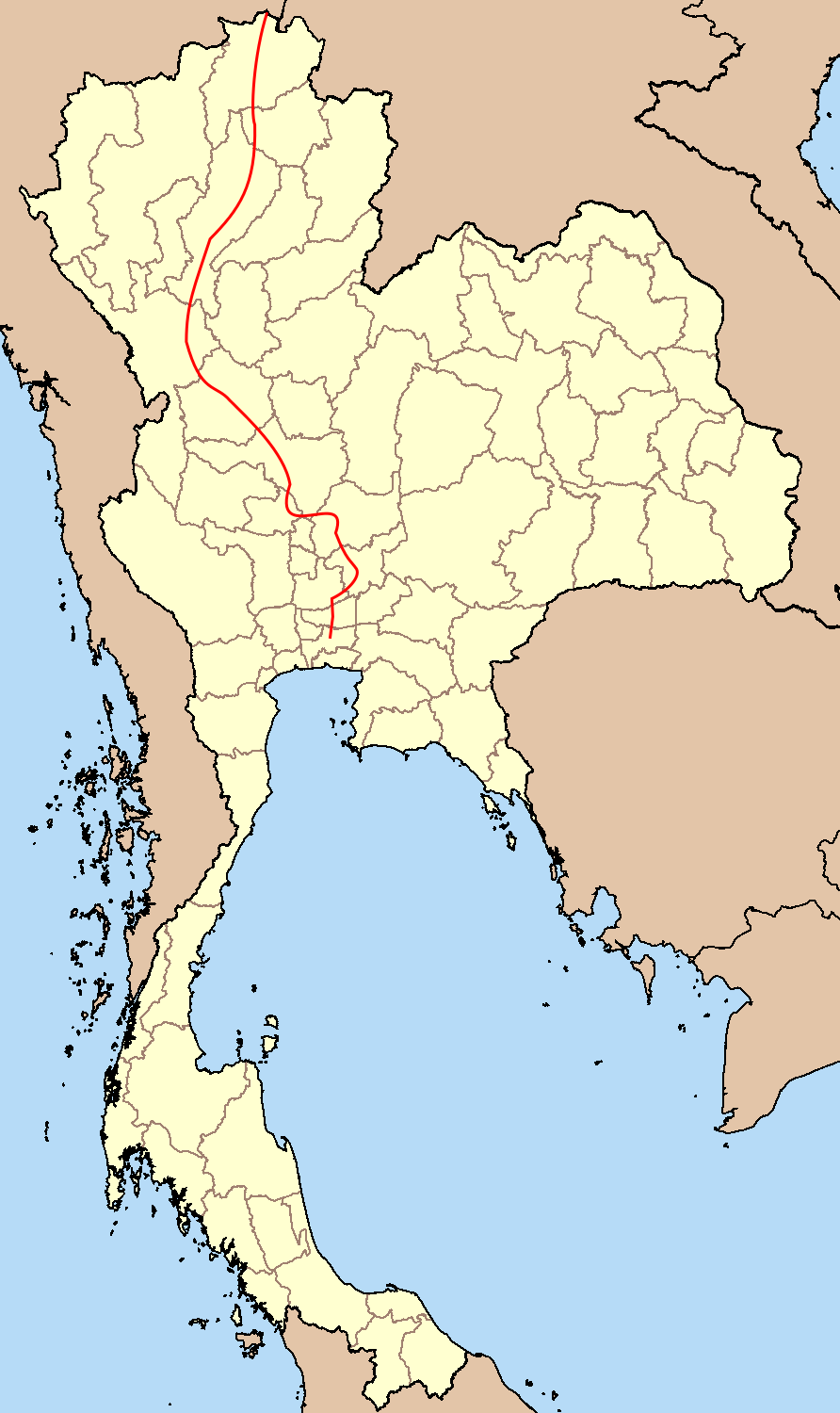 approximate course of Phahonyothin Road (Highway No. 1) in Thailand